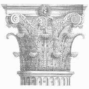 Corinthian column capital.